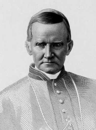 Drawing of John Cardinal McCloskey